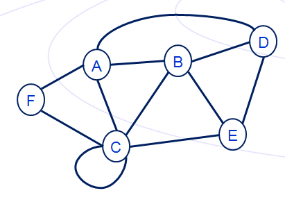 Sự tồn tại của cây tối đại